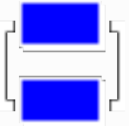 Logo of Dymola